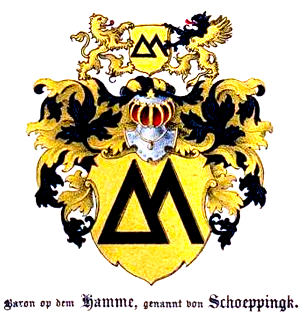 Coat of arms of Baron op dem Hamme, gennant von Schoeppingk family